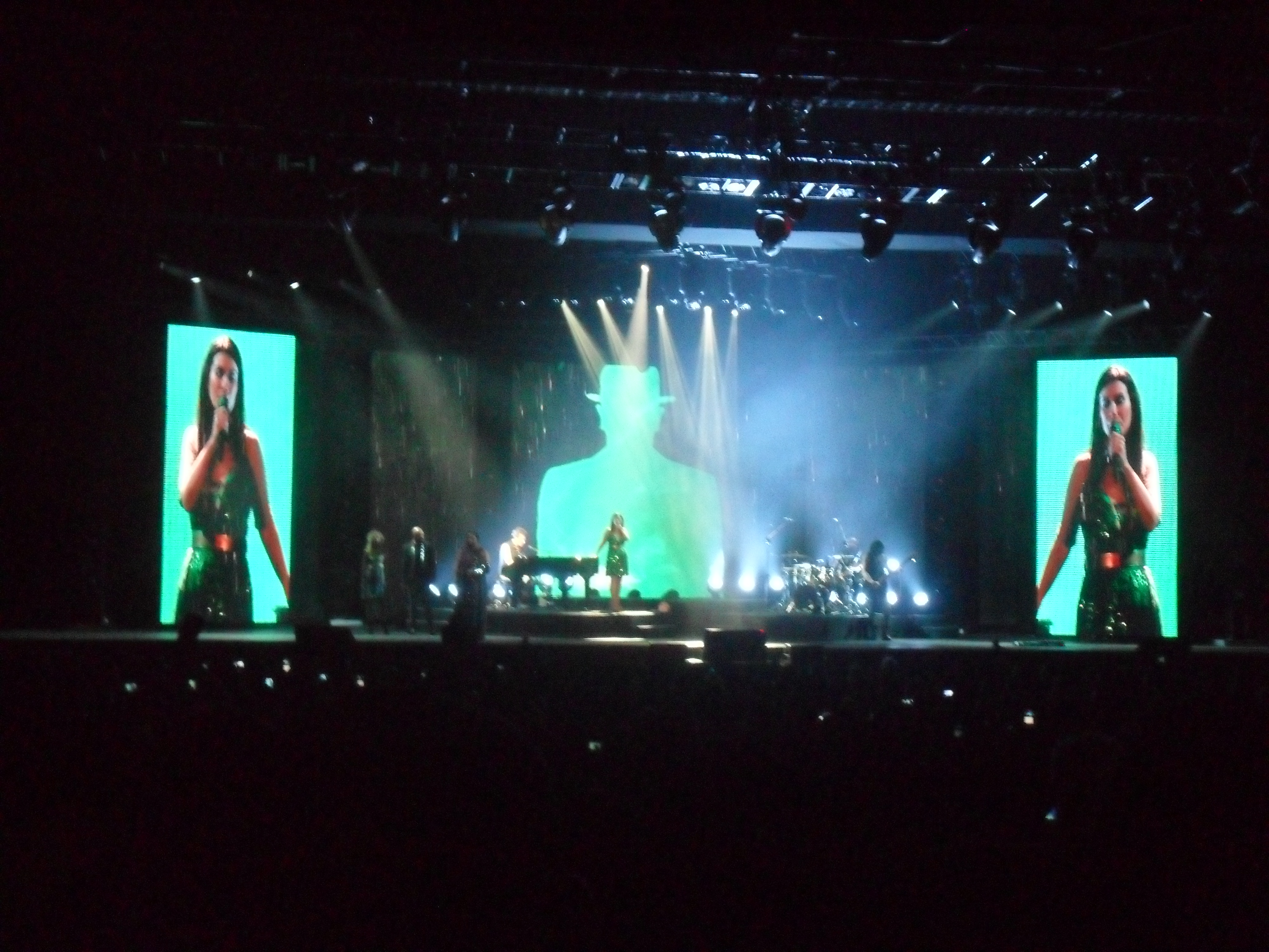 Singer Laura Pausini during a show in Rio de Janeiro, on September 14 2016.